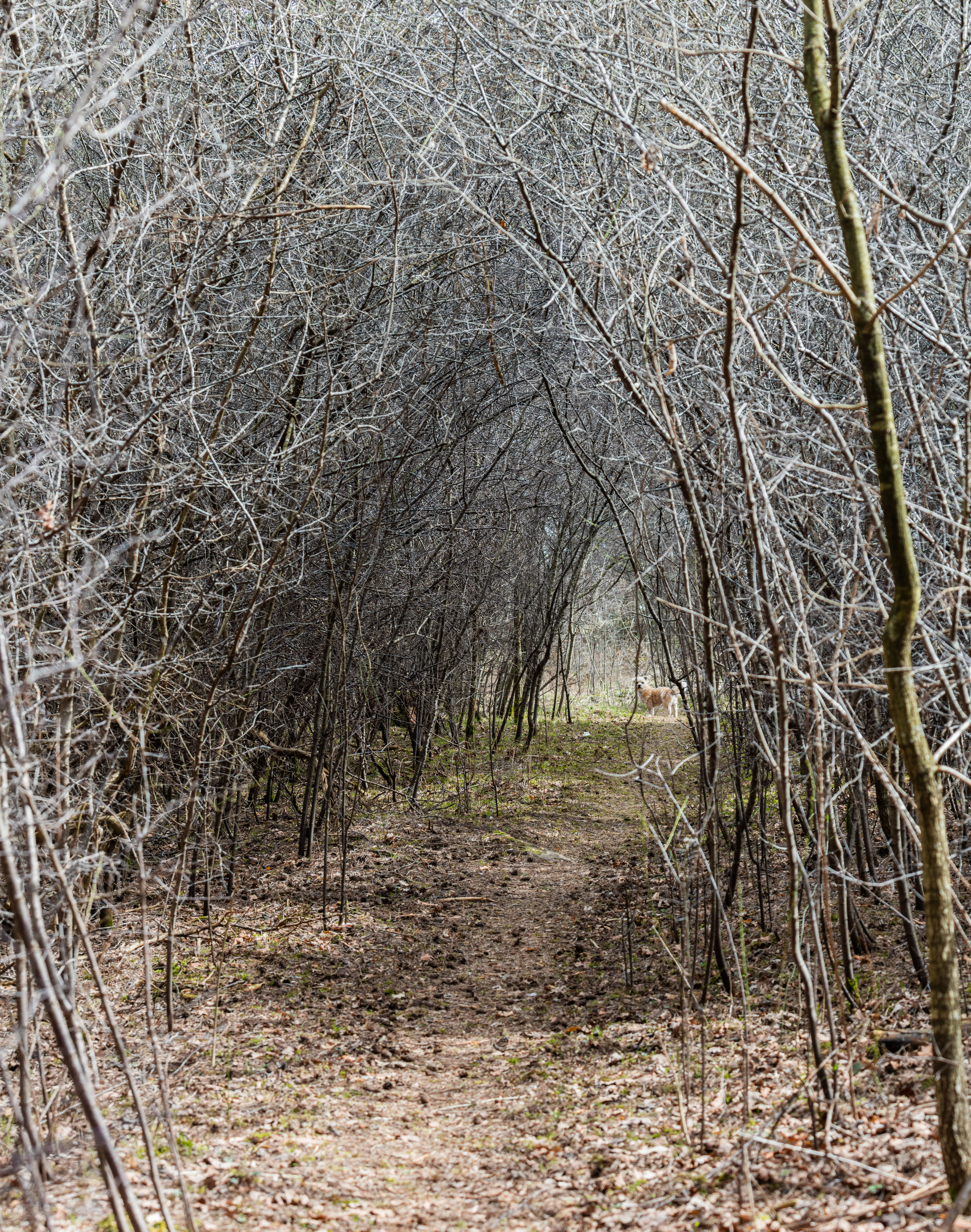 Natural tunnel composed of branches with a viewer at the back :), «Lucky», a mixed-breed dog of Cairn terrier and Maltese in Hartelholz Forest, northern Munich, Germany.